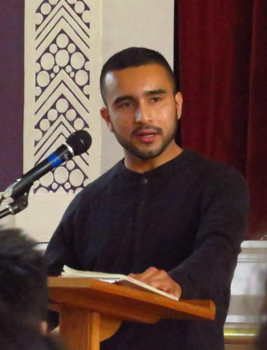 Javier Zamora, poet, reading at Sacred Heart School, Washington, DC February 27, 2018.